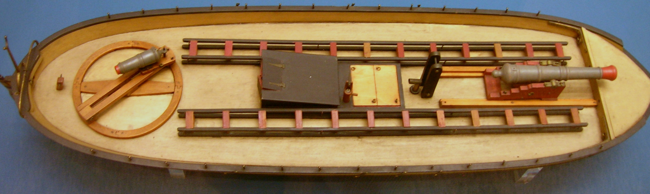 Model of a 1808 gunboat, with a 24-pounder gun forward and a carronade aft.